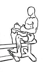 an exercise of calves